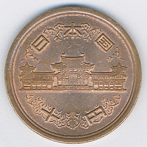 10 Yen coin of Japan. Inscription: 日本国 (Nippon-koku) 十円 (Ten yen). Design: Byodoin, a Buddhist temple in Uji, Kyoto Prefecture, Japan. I scanned this coin.